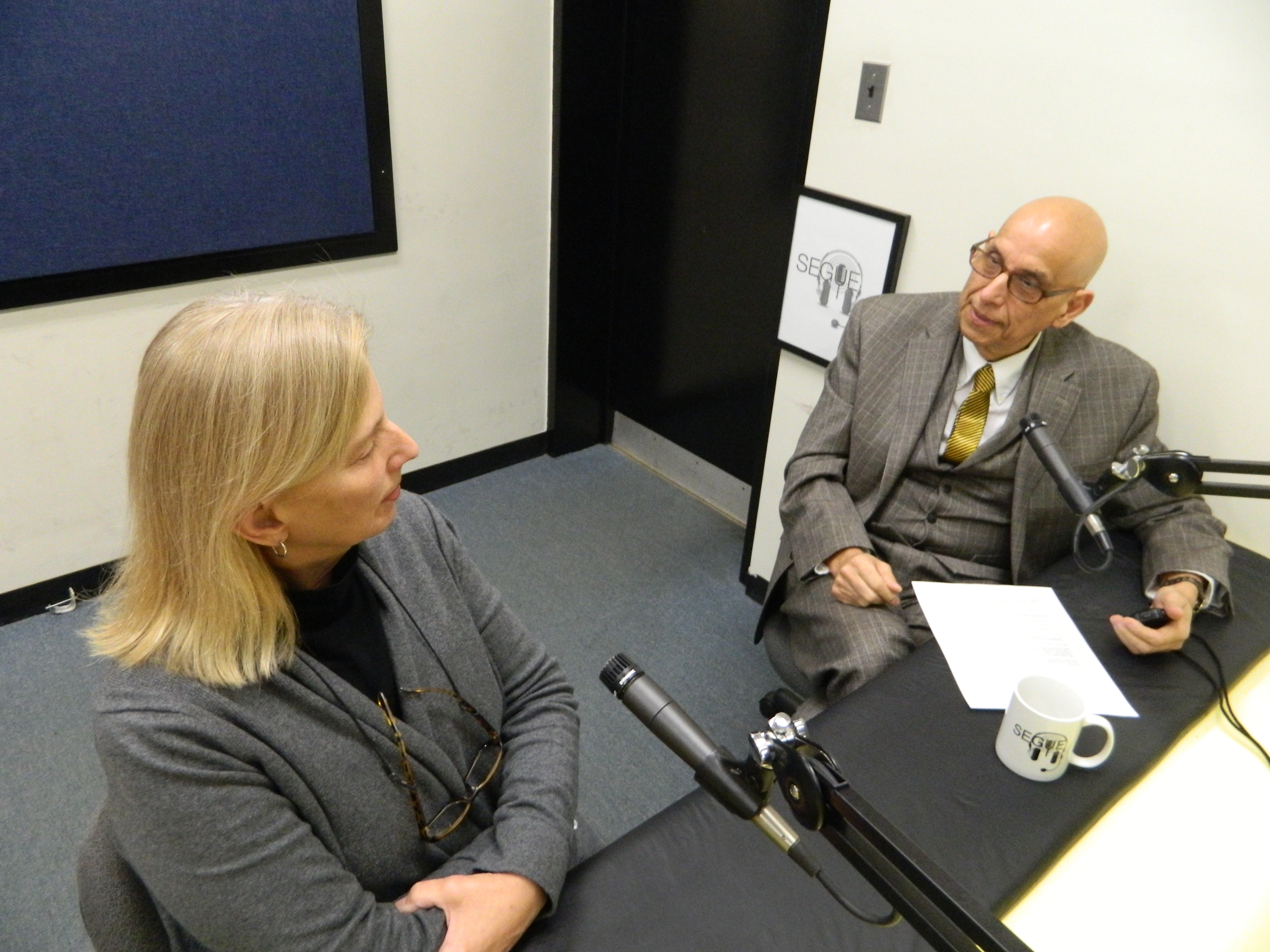 Aldemaro Romero Jr. as host of the radio show Segue.